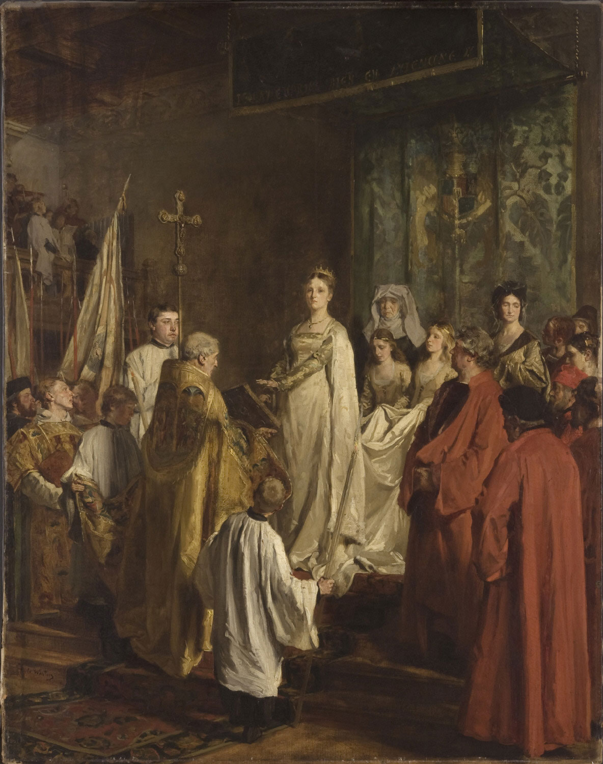 Émile-Charles Wauters, Mary of Burgundy Granting the Great Privilege, 1878 (Philadelphia Museum of Art, Philadelphia, USA)